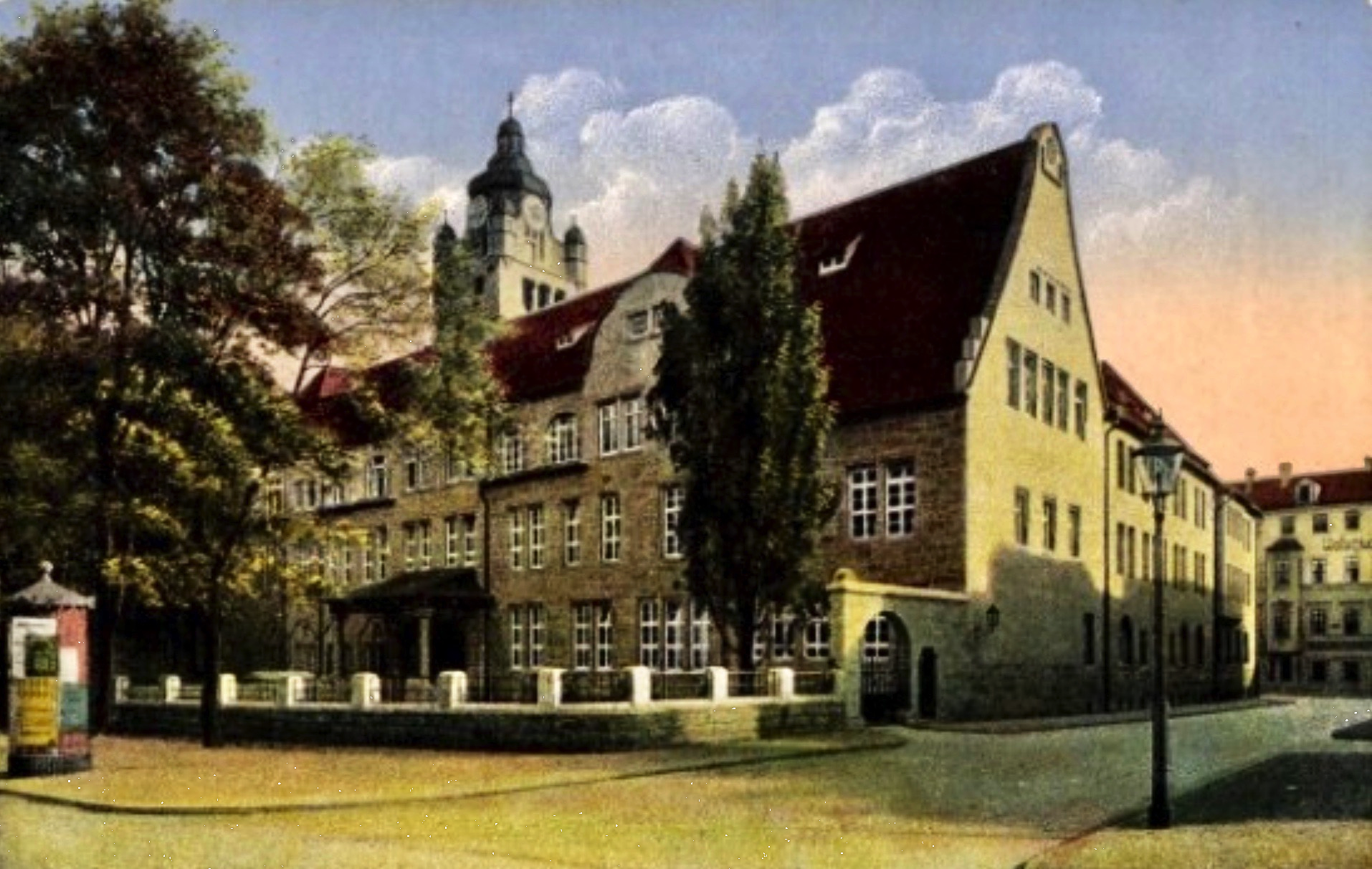 University of Jena, Thuringia, Germany – hand-coloured picture card from about 1910